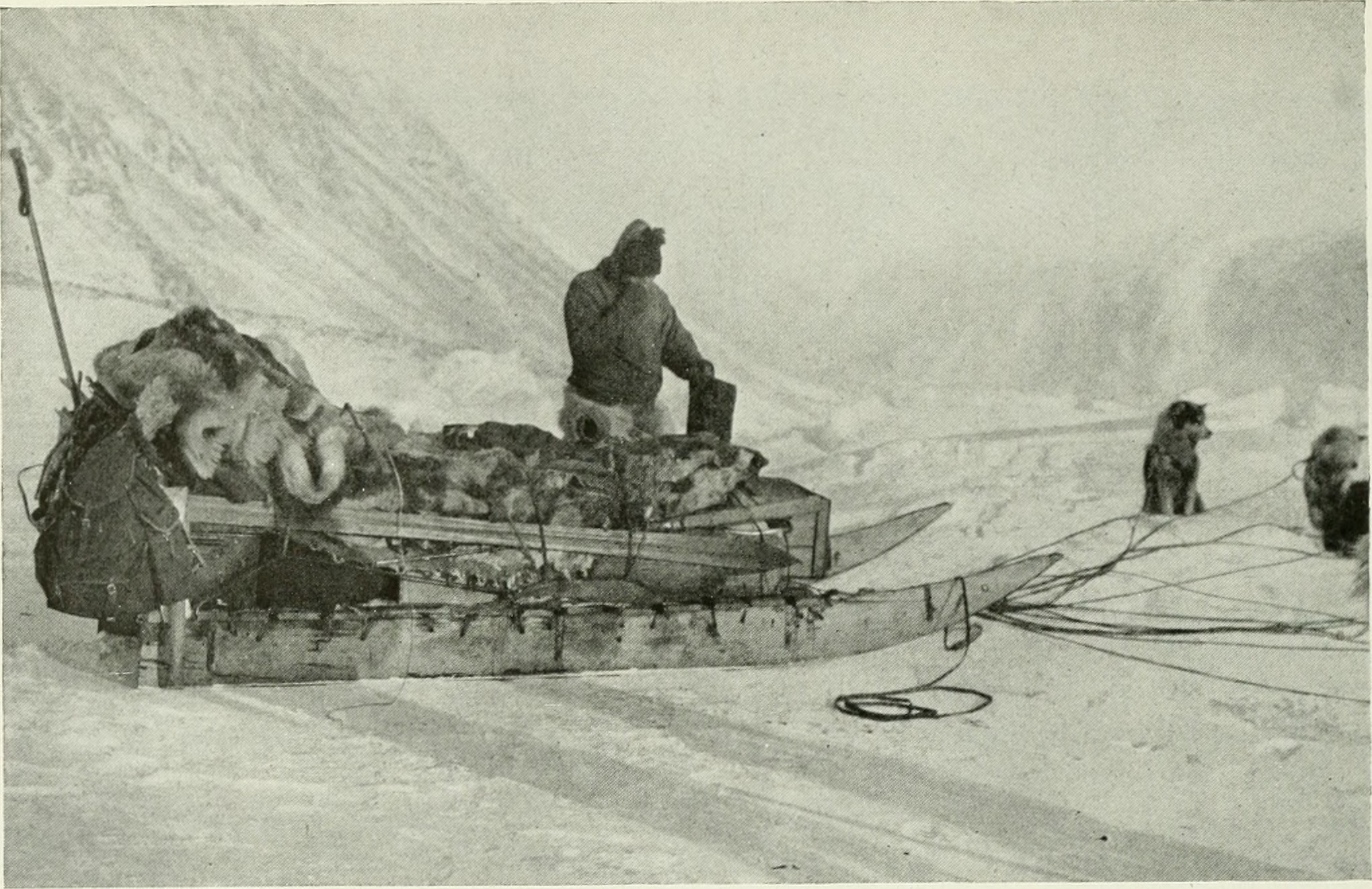 Title: The American Museum journal Year: c1900-(1918) (c190s) Authors: American Museum of Natural History Subjects: Natural history Publisher: New York : American Museum of Natural History Text Appearing Before Image: ' Text Appearing After Image: Courtesy of Donald B. MacMillan. Hendrik Olsen, the Greenlander, with a loaded sledge of the Second Thule Expedition, 1917, photo- graphed on the ice of Foiilke Fjord in front of the headquarters of the Crocker Land Expedition. Rasmus- sen reports the death of Hendrik Olsen on this expedition